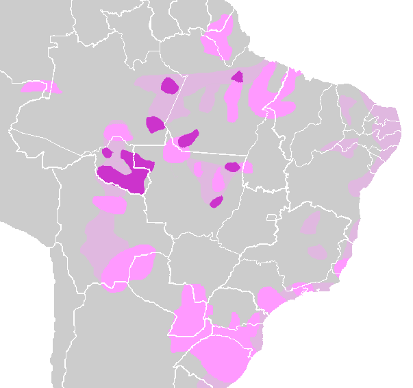 Tupi (violet), Tupi-Guarini (pink) languages areas and early probable areas (pink-grey). Based on data "Tupí Languages" & "Tupí-Guaraní Languages" in The Amazonian Languages, Dixon & Alexandra Y. Aikhenvald (eds.), Cambridge: Cambridge University Press, 1999. p. 108 & p.126.